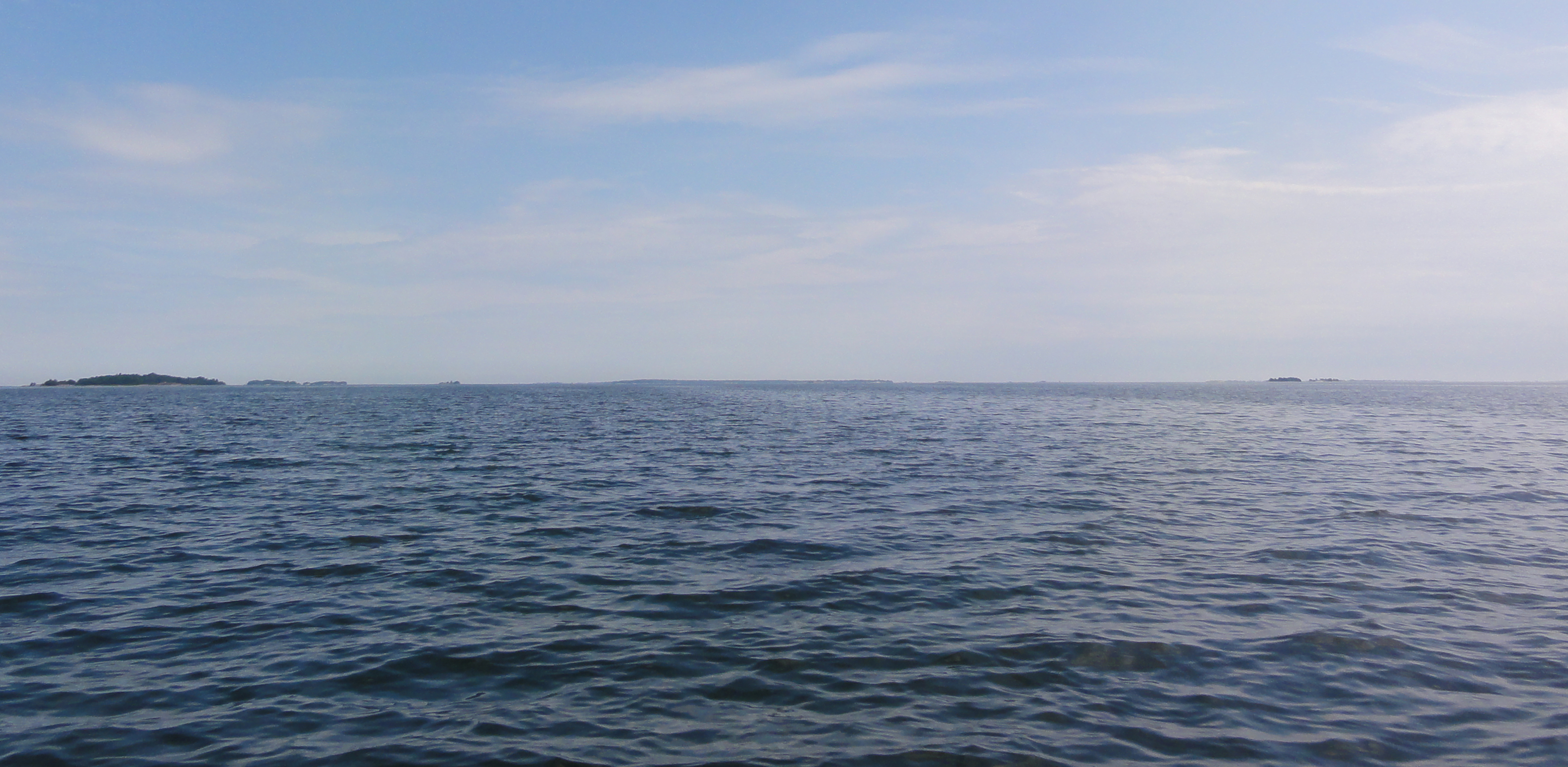 Svartlögafjärden, narrow coastal inlet in Stockholm archipelago